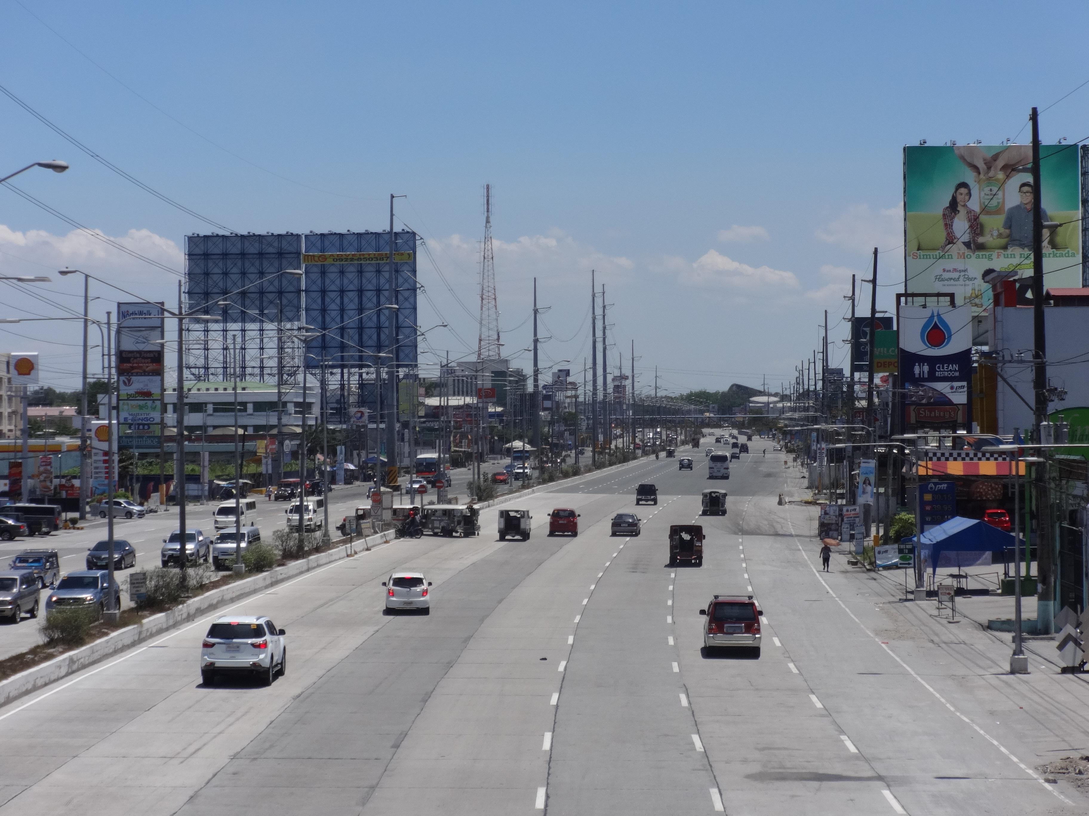 A portion of Olongapo-Gapan Road (Jose Abad Santos Avenue) between McArthur highway and North Luzon Expressway (NLEX) in City of San Fernando, Pampanga. Also seen is the CGIC Building, home of Laus Group of Companies and CLTV-36 station